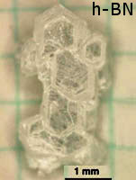 hexagonal boron nitride viewed along the c-axis